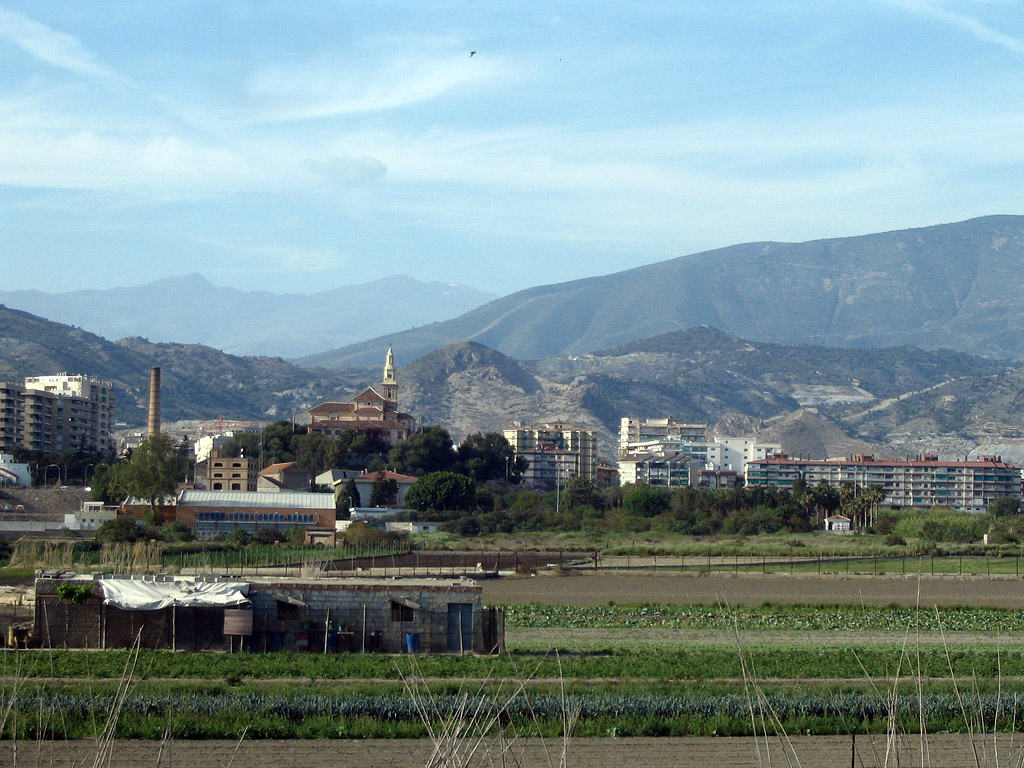 View of Motril, Spain.